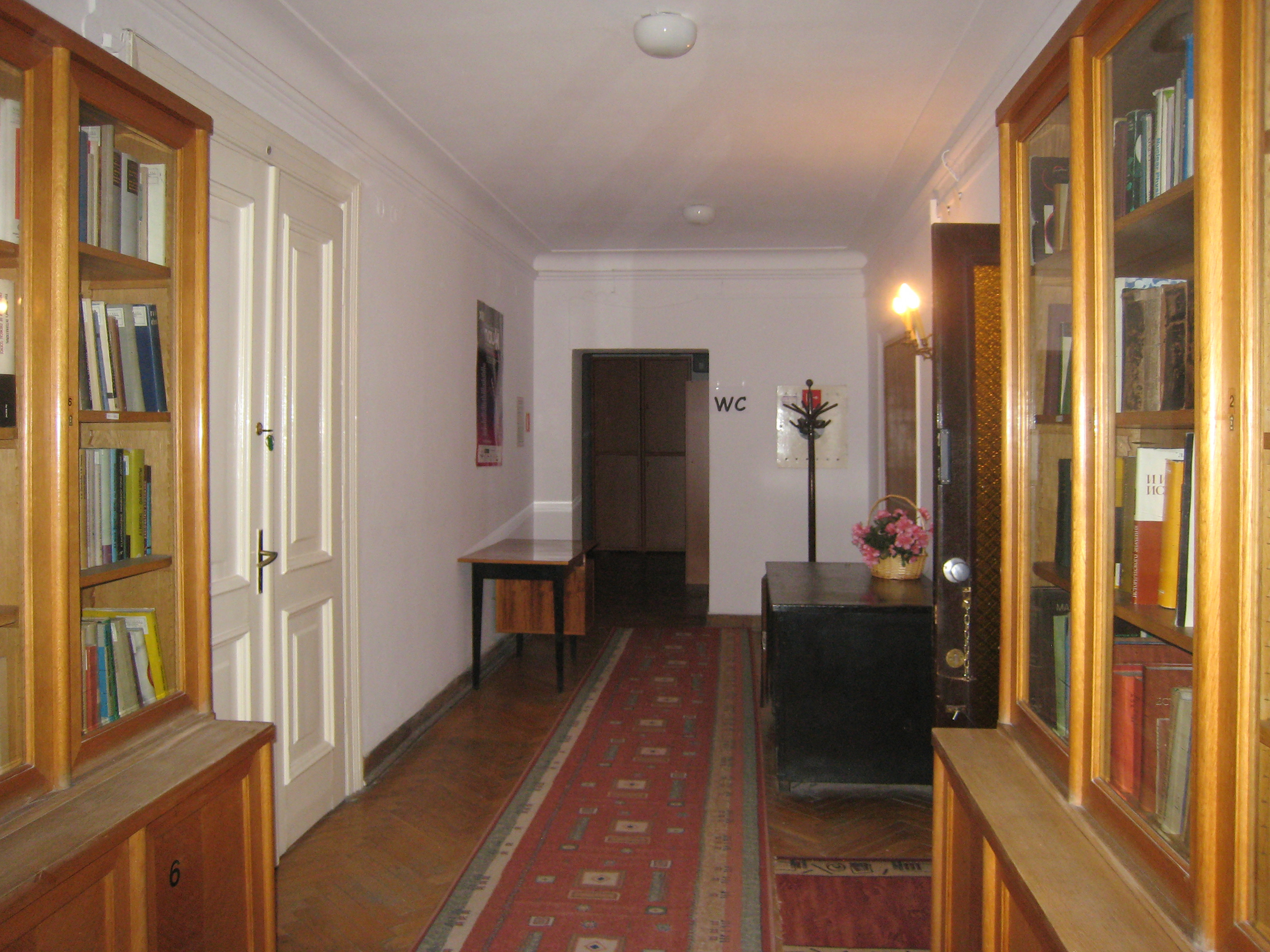 Interior of the Maria Skłodowska-Curie Museum.